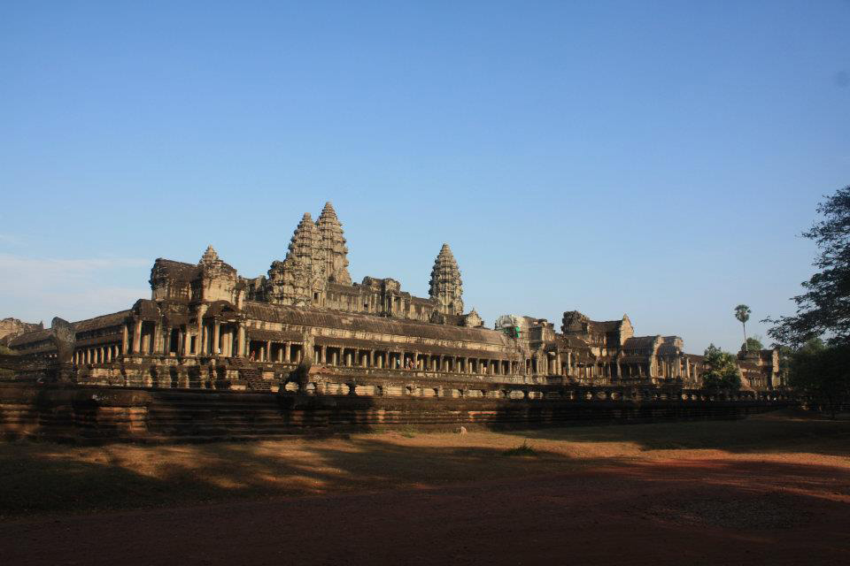 Southeast view of Angkor Wat in the morning, Angkor Wat temple, Siem Reap, Cambodia.